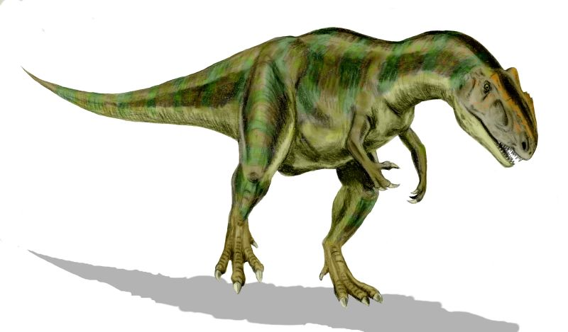 Allosaurus fragilis, an allosaurid theropod from the Late Jurassic of North America, pencil drawing